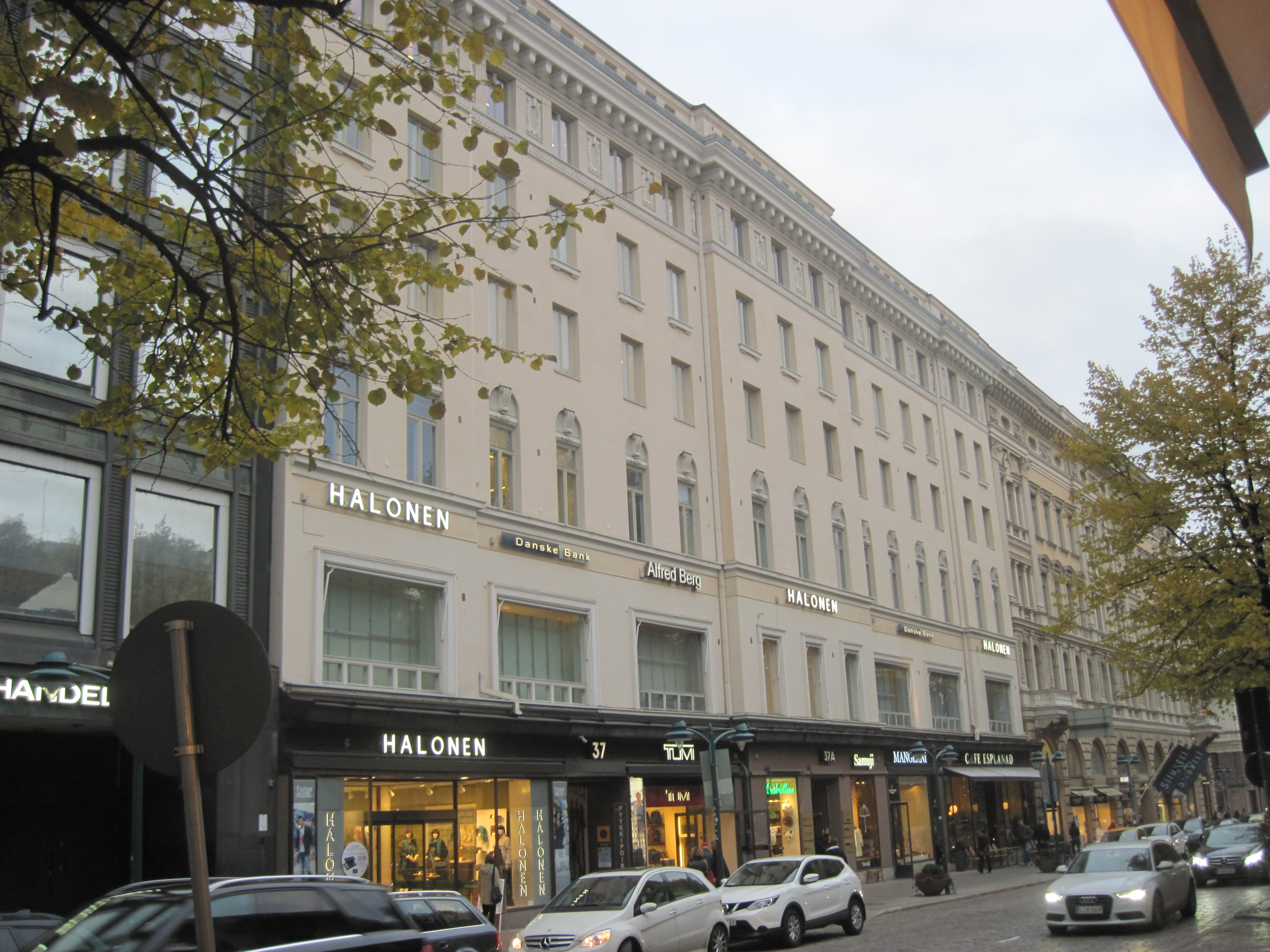 Pohjoisesplanadi 37, Helsinki, Finkand